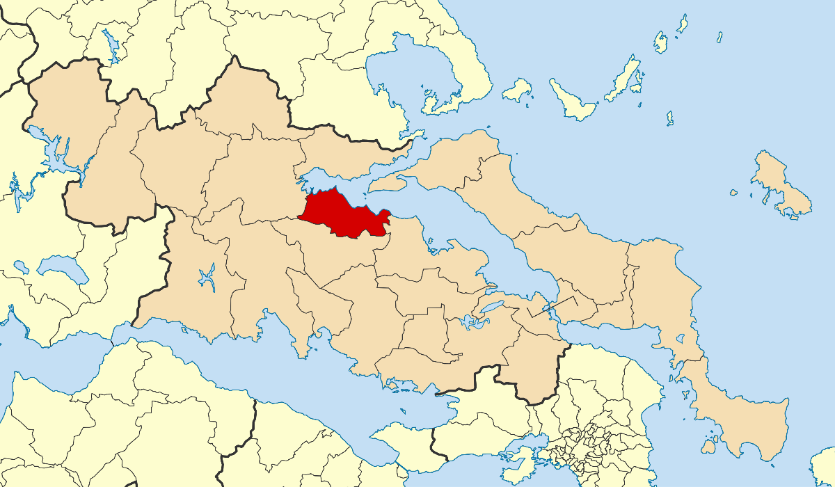 Locator map for Molos-Agios Konstandinos municipality in Greek region Central Greece (2011)